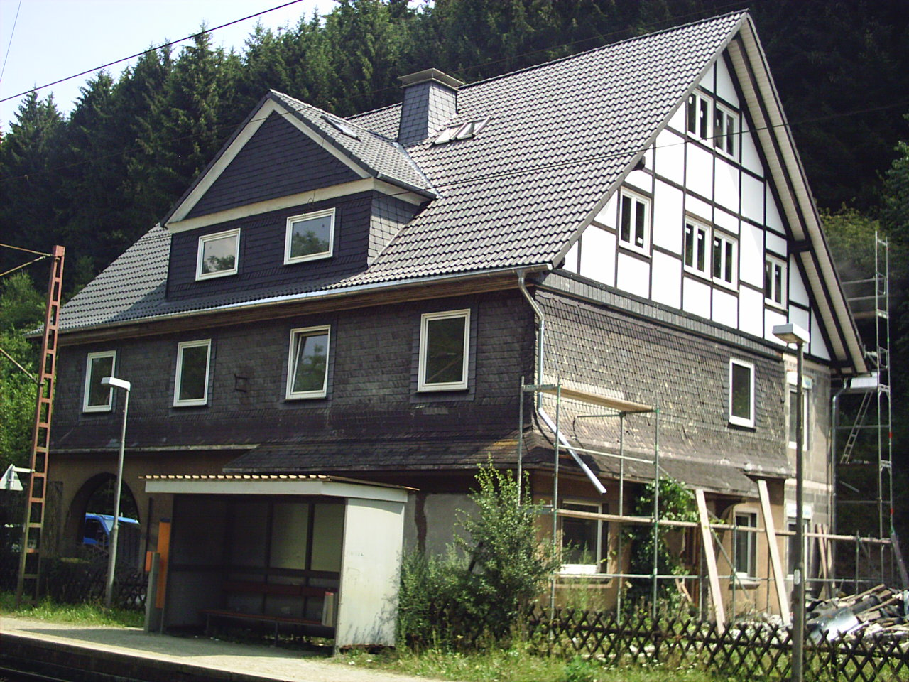 Kirchhundem station, Kirchhundem, Germany check usage